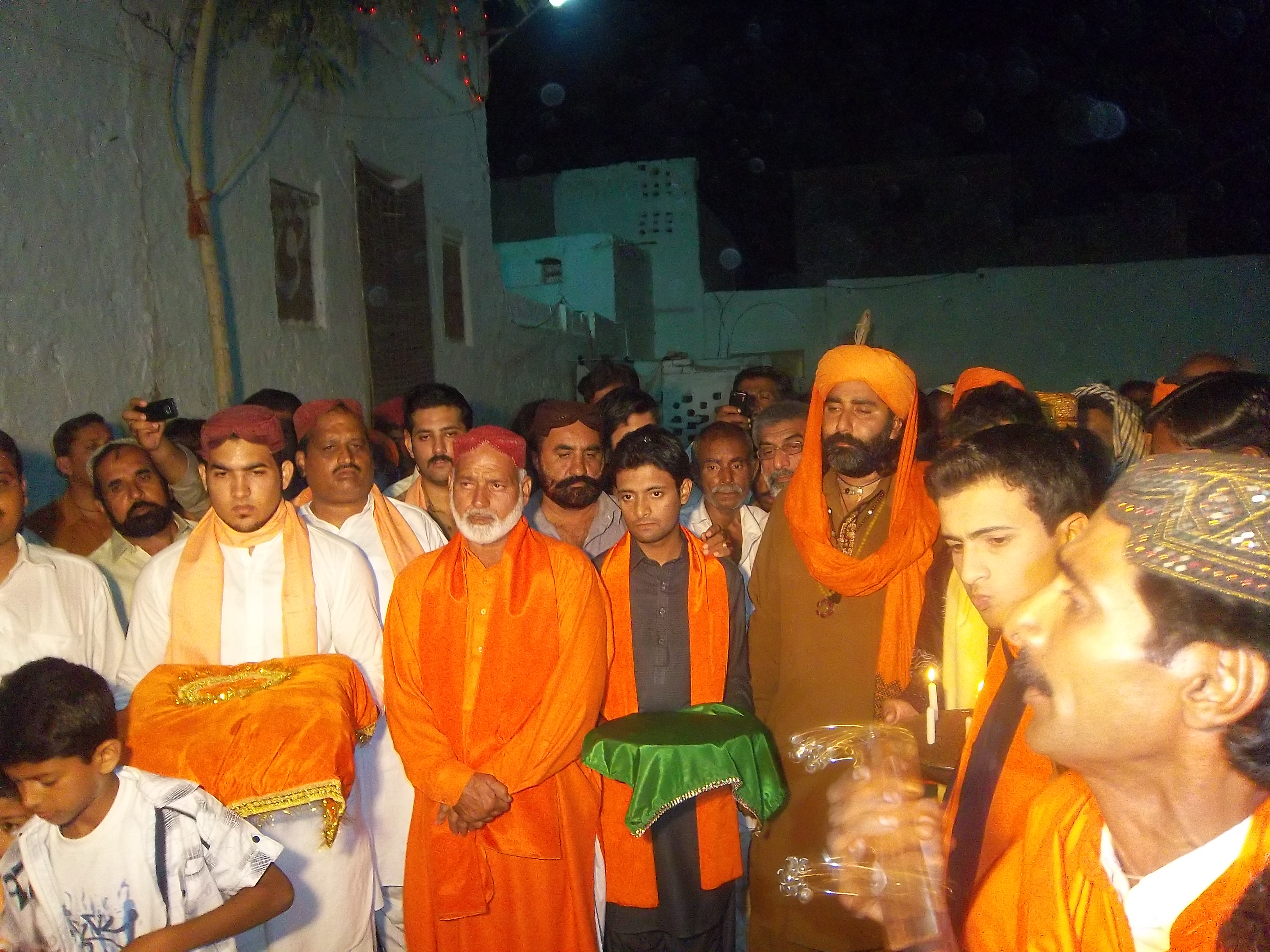 The custom of taking out Mehndi Sharif at the Annual Urs of Hazrat Qadir Bux Bedil